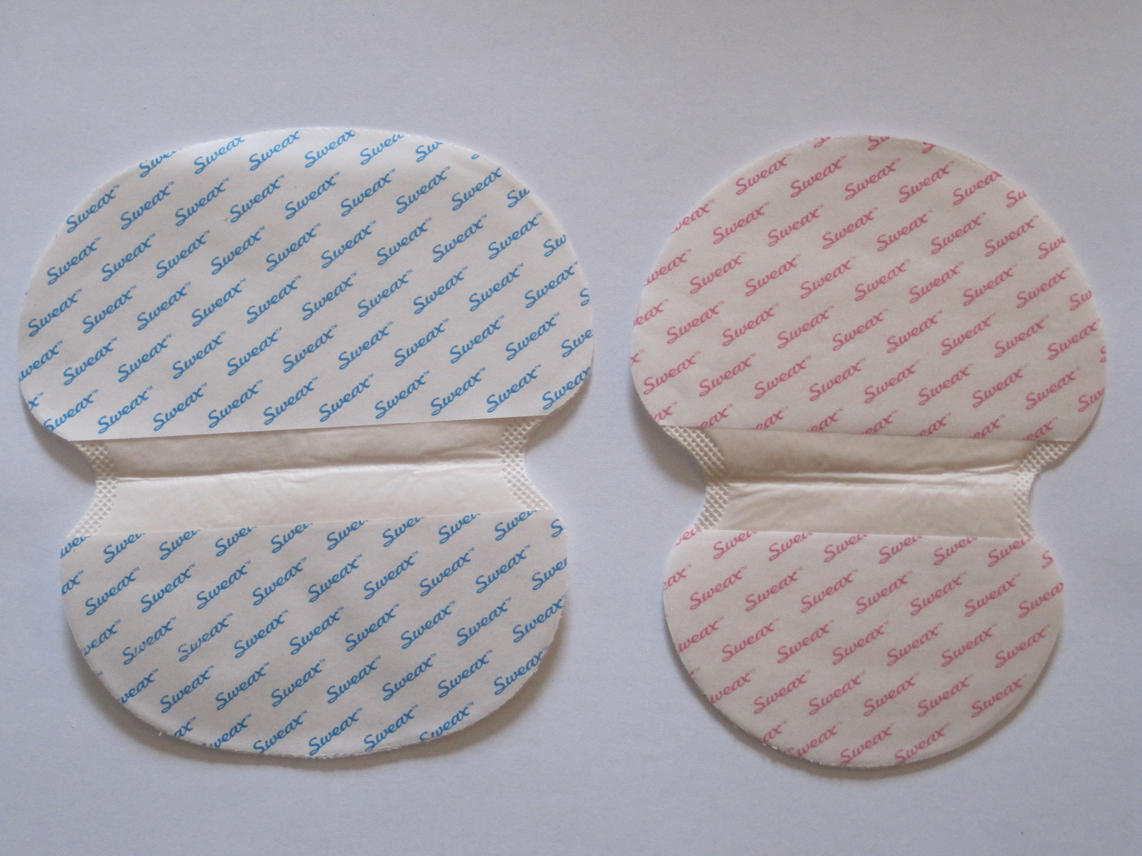 Underarm liner